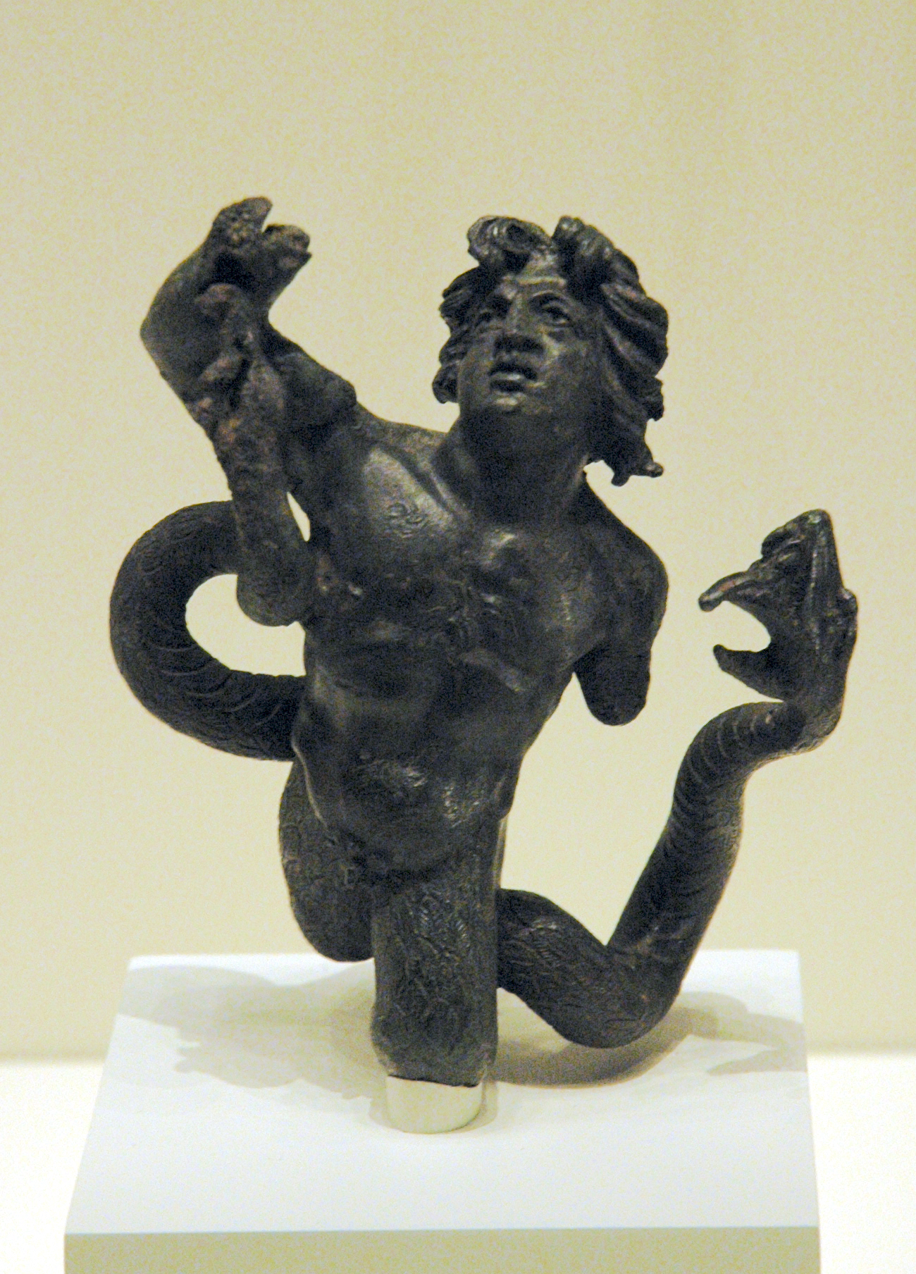 Snake-legged Giant. Romanstatuette